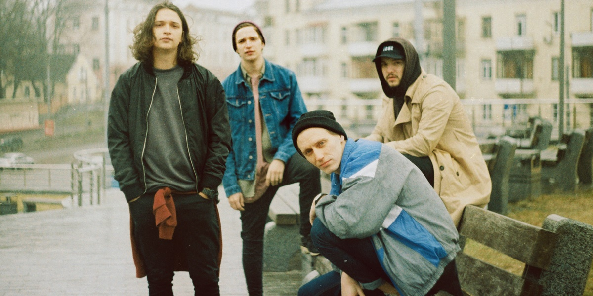 Space of variations autumn 2018